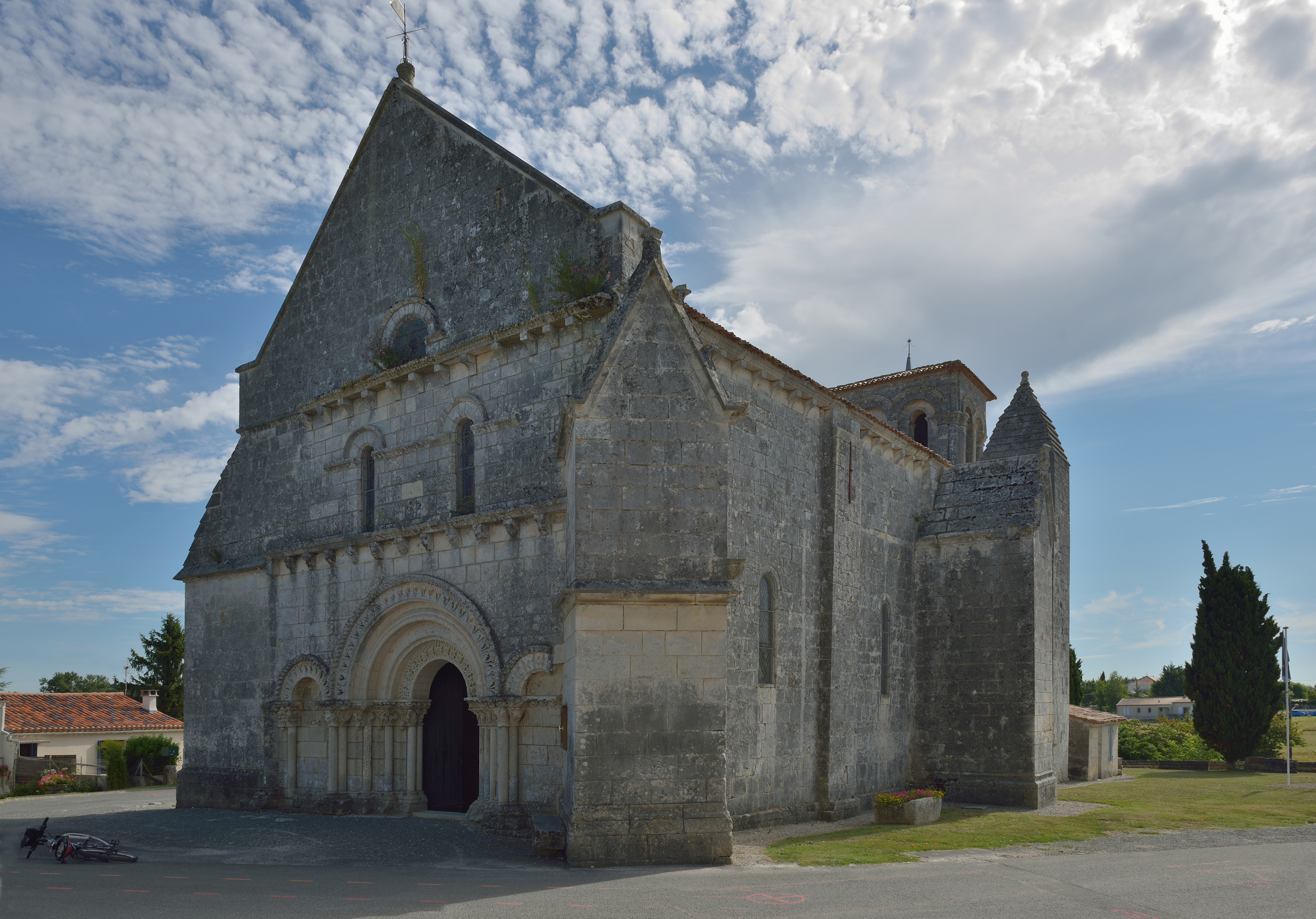 Saint-Pierre church in Écurat in France